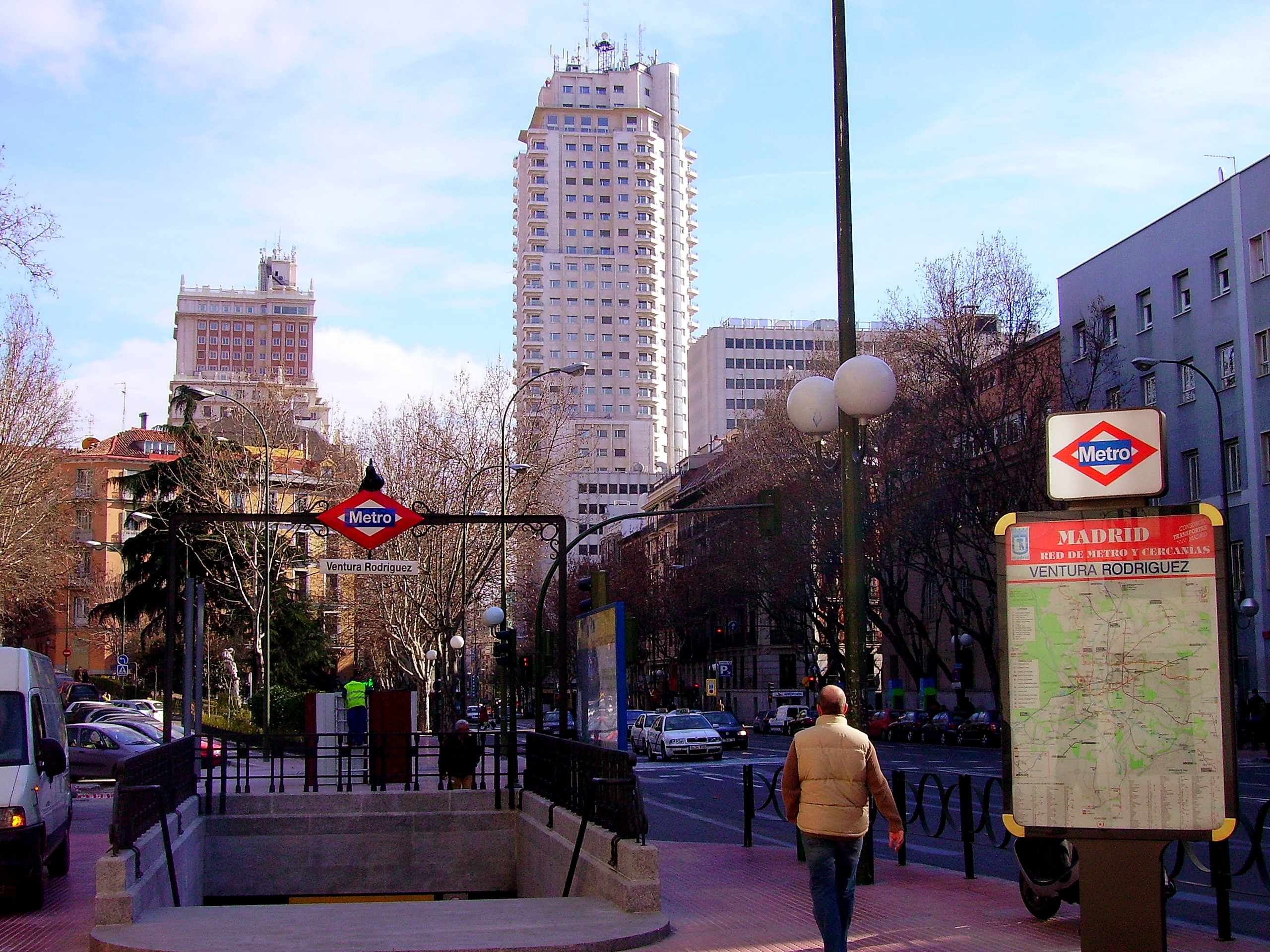 Calle de la Princesa (street) in Madrid (Spain). Foreground: entrance to Ventura Rodríguez metro's station. Background: Torre de Madrid building.